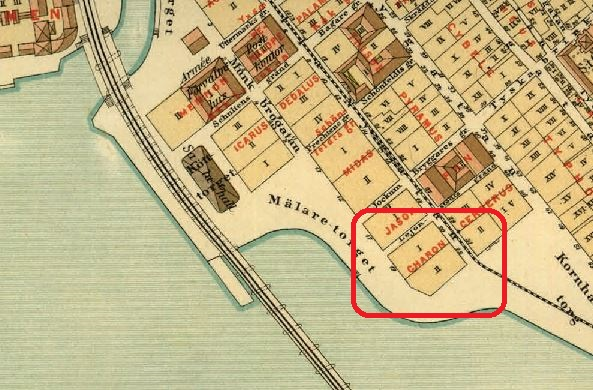 Del av Lundgrens karta över Stockholm år 1885 visande kvarteret Charon